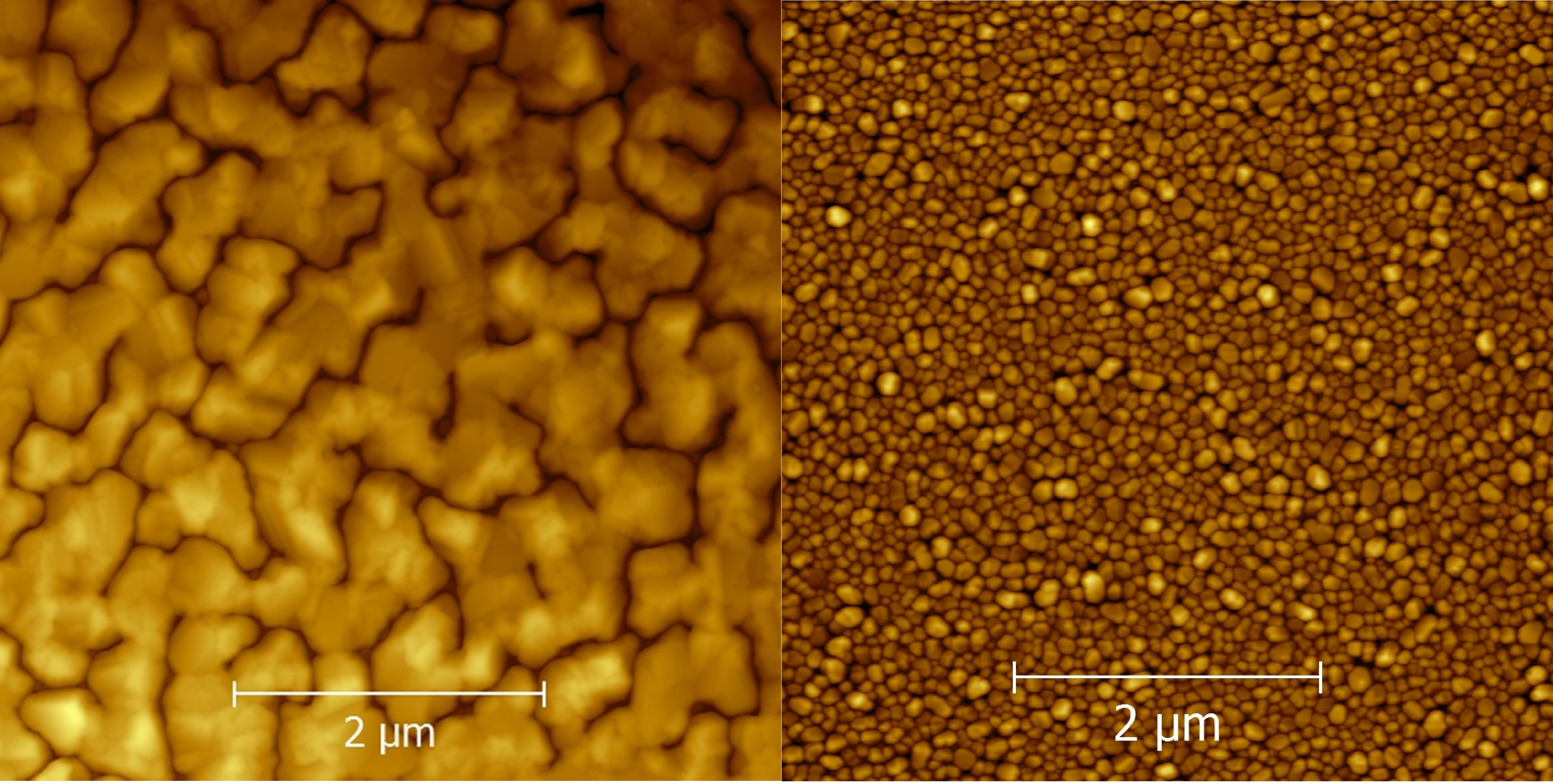 Atomic force microscopy images of two lead layers prepared by different magnetron sputtering regimes.